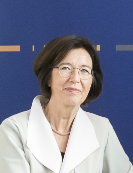 OSCE PA President Christine Muttonen with ICC First Vice-President Joyce Aluoch at The Hague